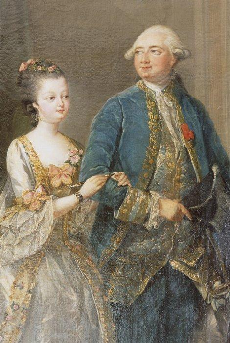 Portrait présumé du duc et de la duchesse de Chartres entourés des familles de Penthièvre et de Conti (detail)